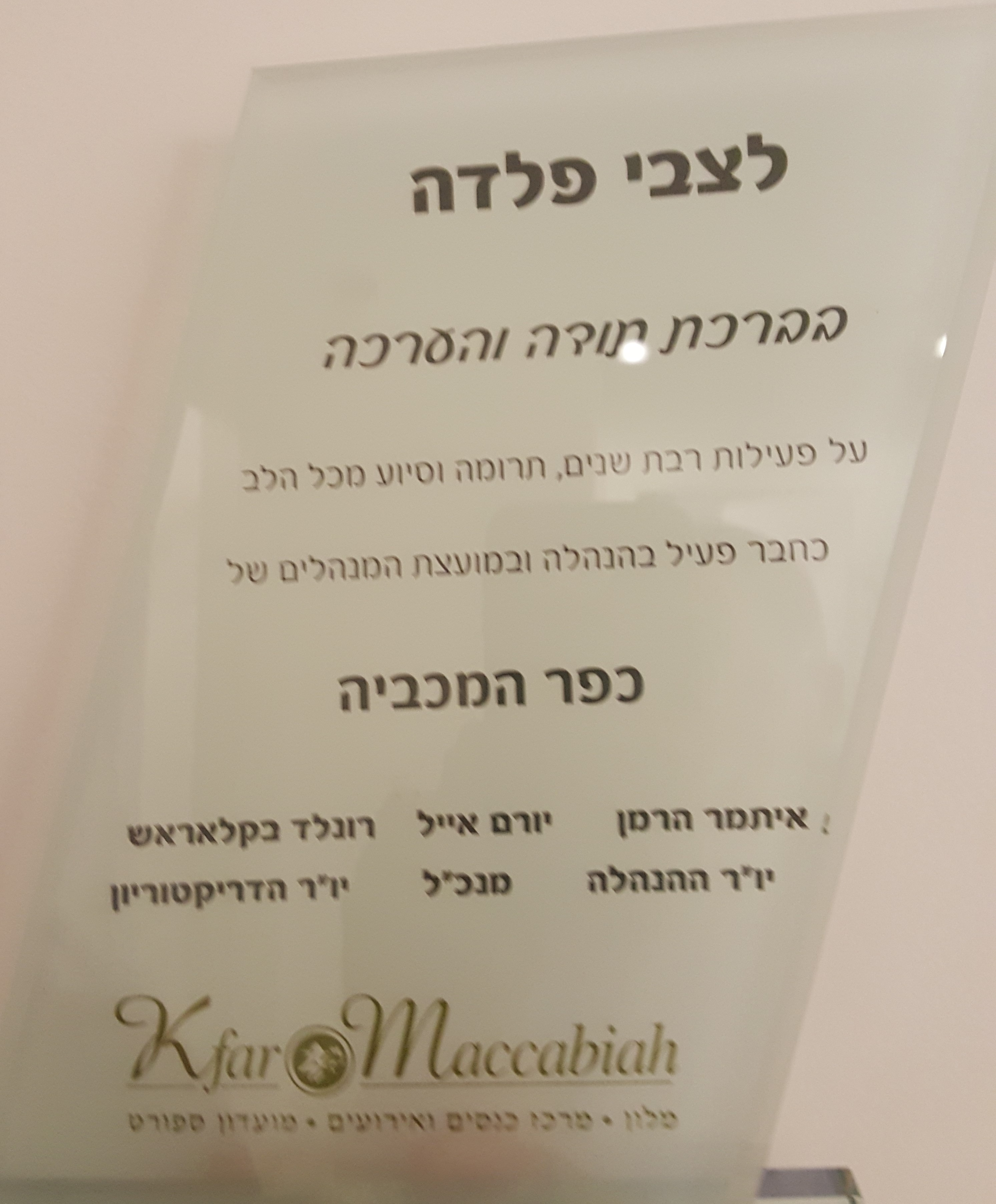 Zvi Plada